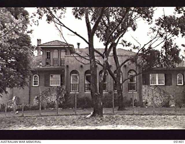 RINGWOOD NORTH, VIC 1943-05-04. GENERAL VIEW OF PARK ORCHARDS CHALET WHICH IS USED AS ADMINISTRATIVE HEADQUARTERS OF LAND HEADQUARTERS HEAVY WIRELESS GROUP.